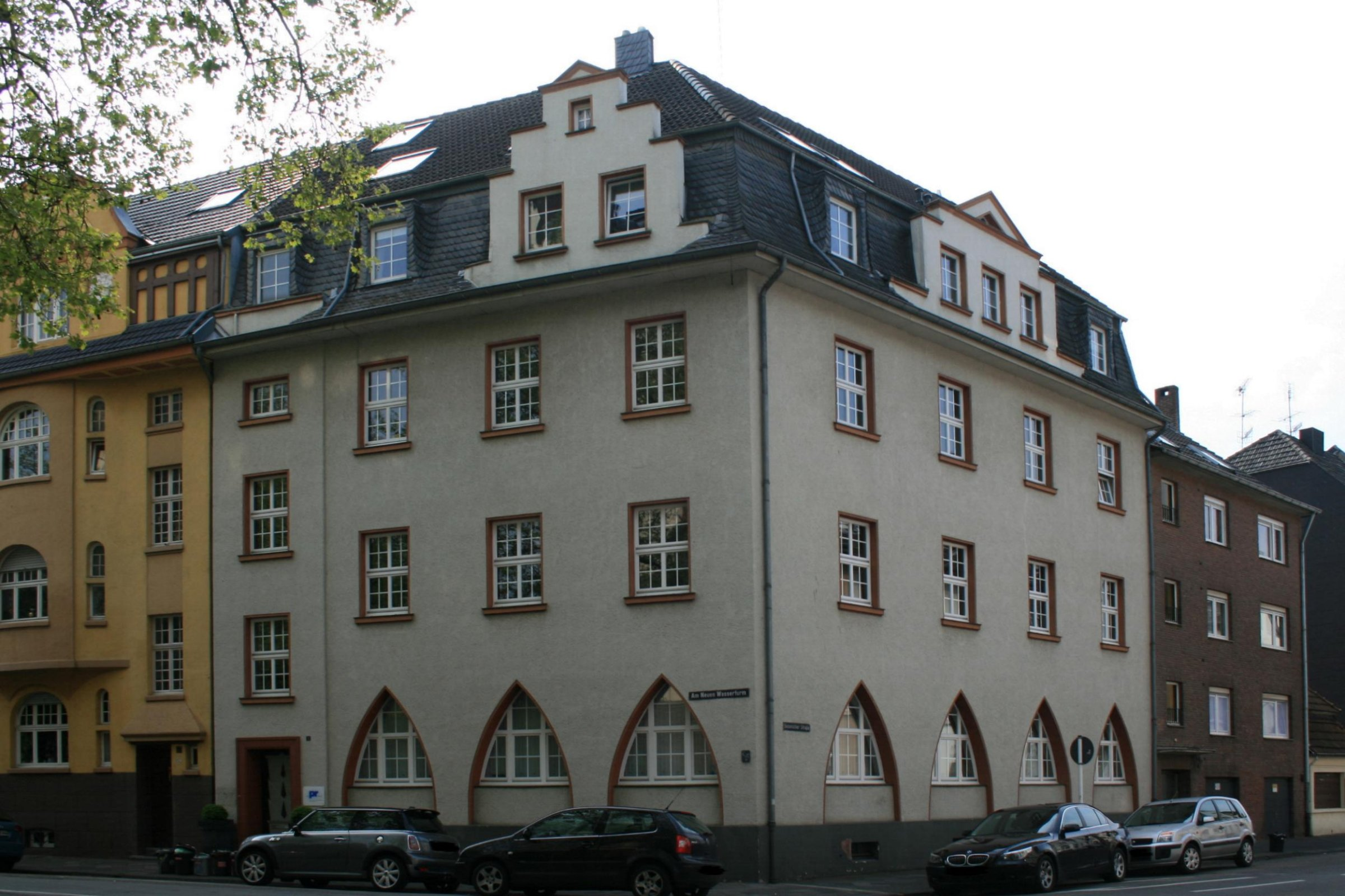 Cultural heritage monument No. A 039 in Mönchengladbach